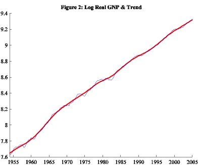 파일:Businesscycle figure2.jpg